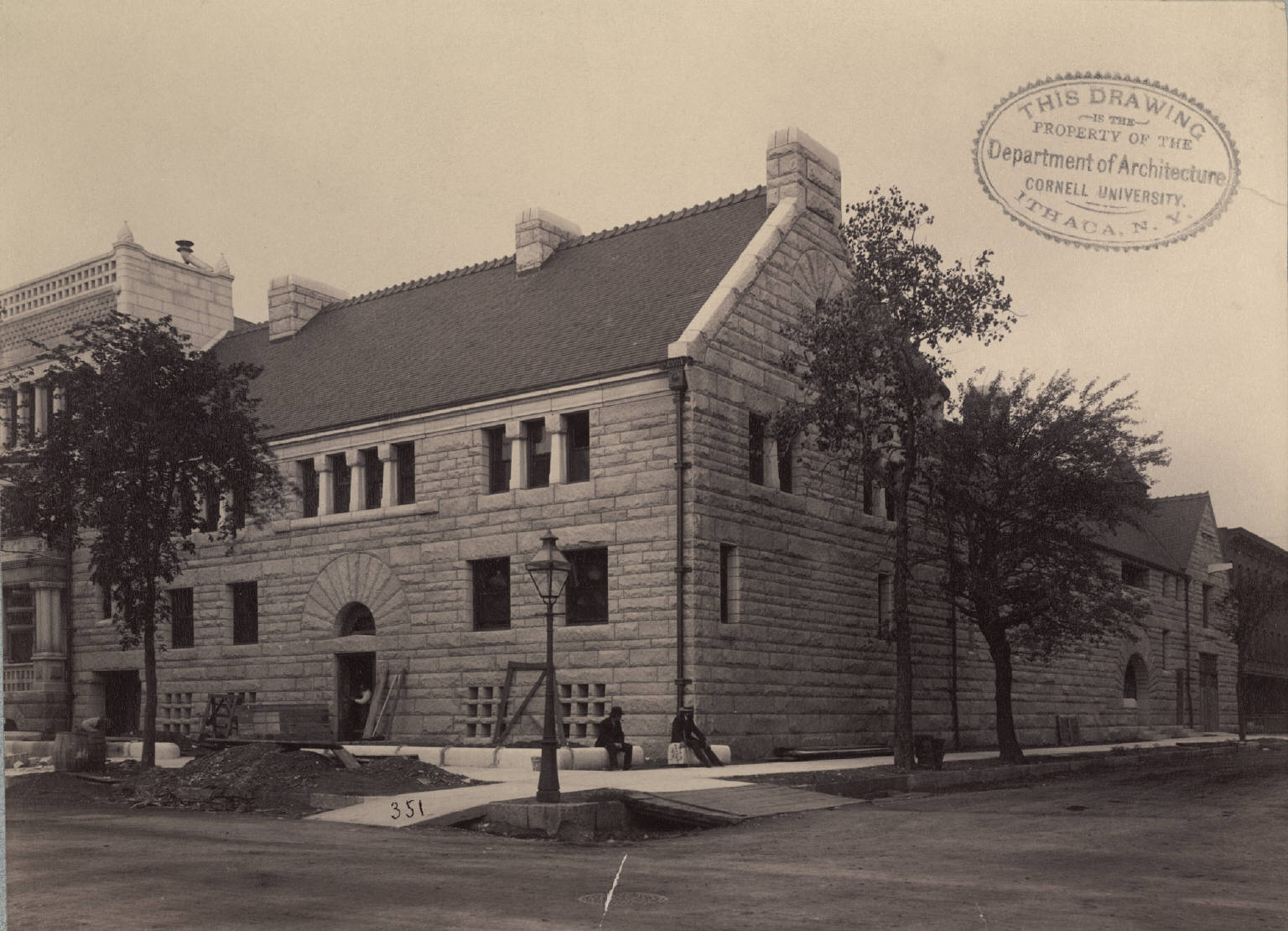 Photo of the Glessner House 1800 S. Prairie Ave., Chicago, Illinois. On the NRHP. Photo taken ca. 1887 as the building is being completed - note workmen in front of the building. Photo is taken from Flicker, where it is posted with "No known restrictions." Given it's age it is clearly Public Domain. Original at Cornell University Library. "There are no known U.S. copyright restrictions on this image. The digital file is owned by the Cornell University Library which is making it freely available with the request that, when possible, the Library be credited as its source."